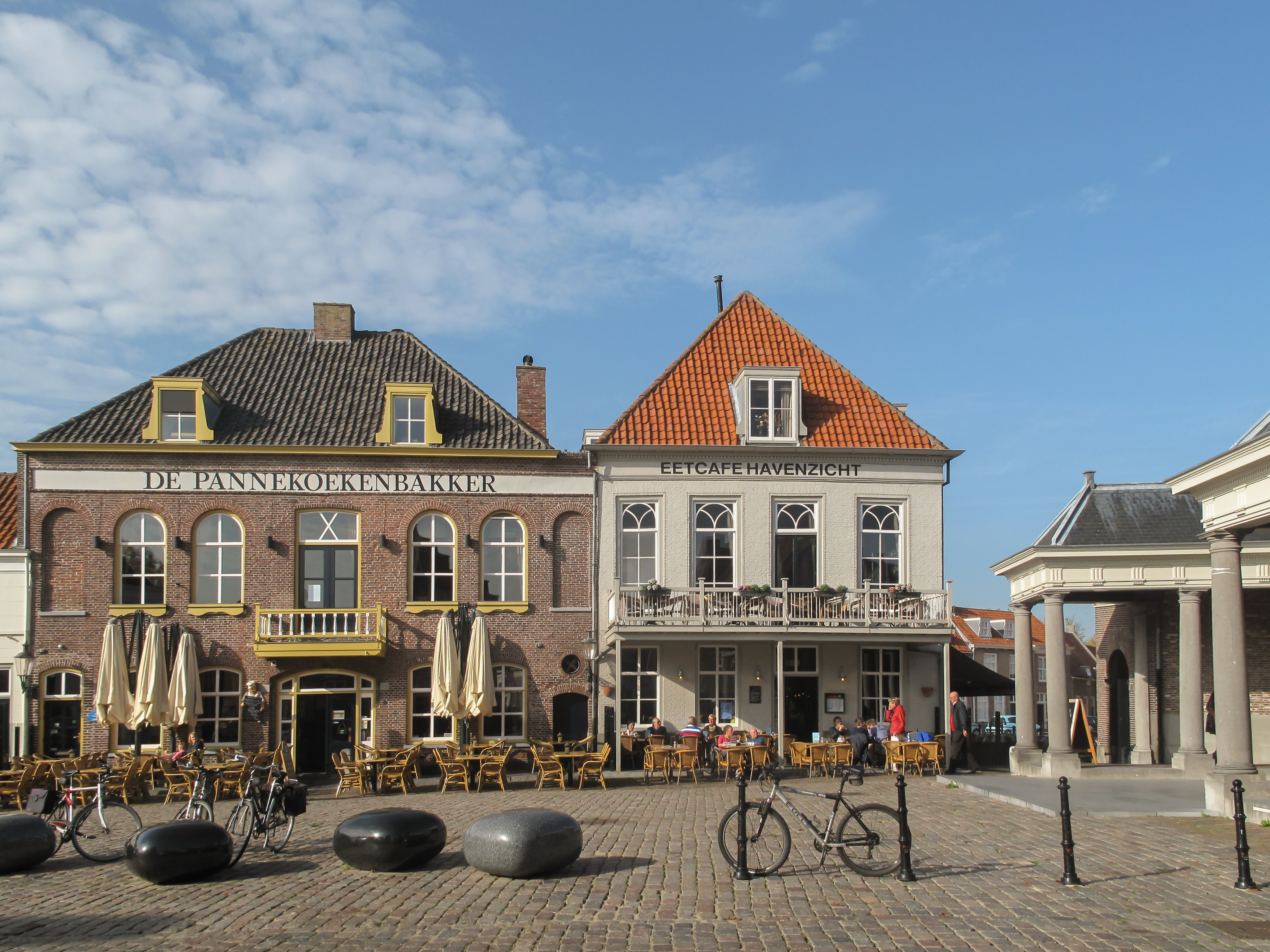 Heusden, view to a street: de Vismarkt